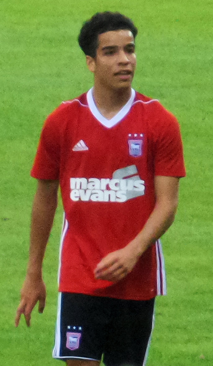 Tristan Nydam playing for Ipswich Town at Peterborough United on 18 July 2017